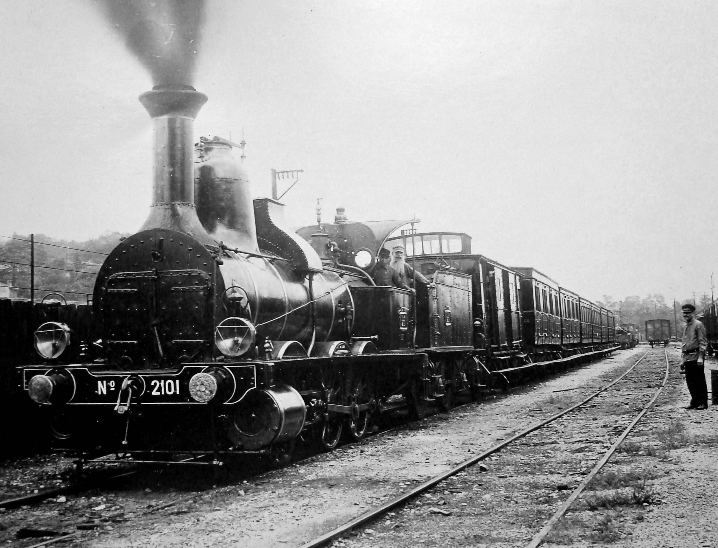 PLM 030 2101.